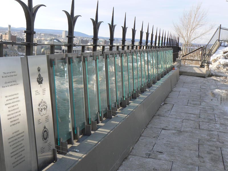 Canadian Police Memorial behind the center block of the Parliament